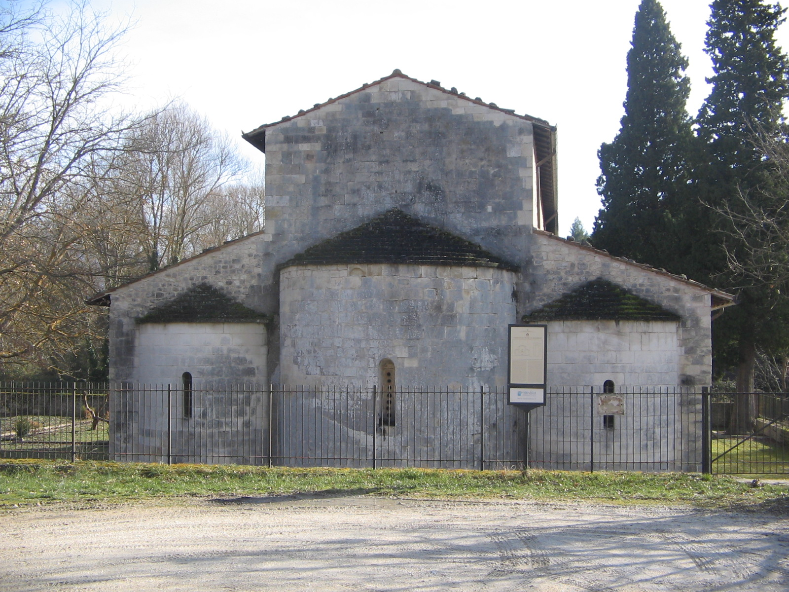 Capestrano (AQ): Church of San Pietro ad Oratorium